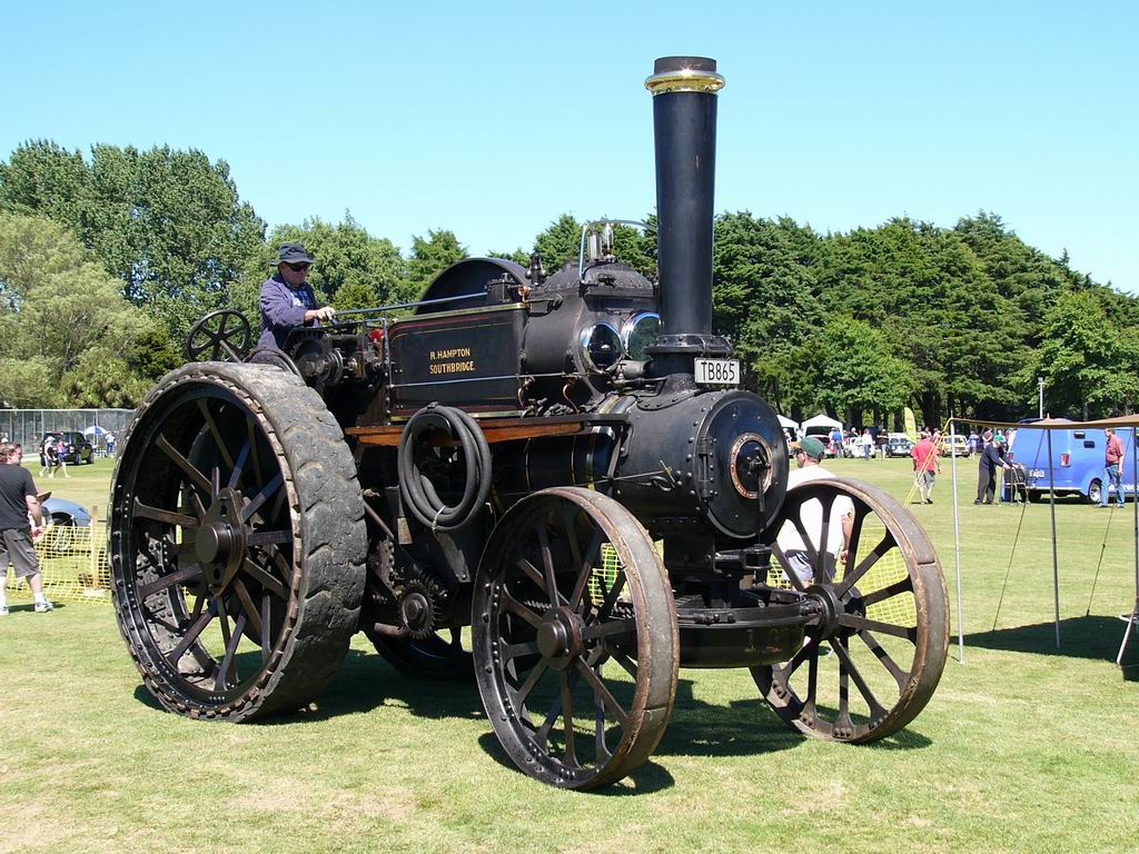 1911 Custombuilt John Fowler Class R